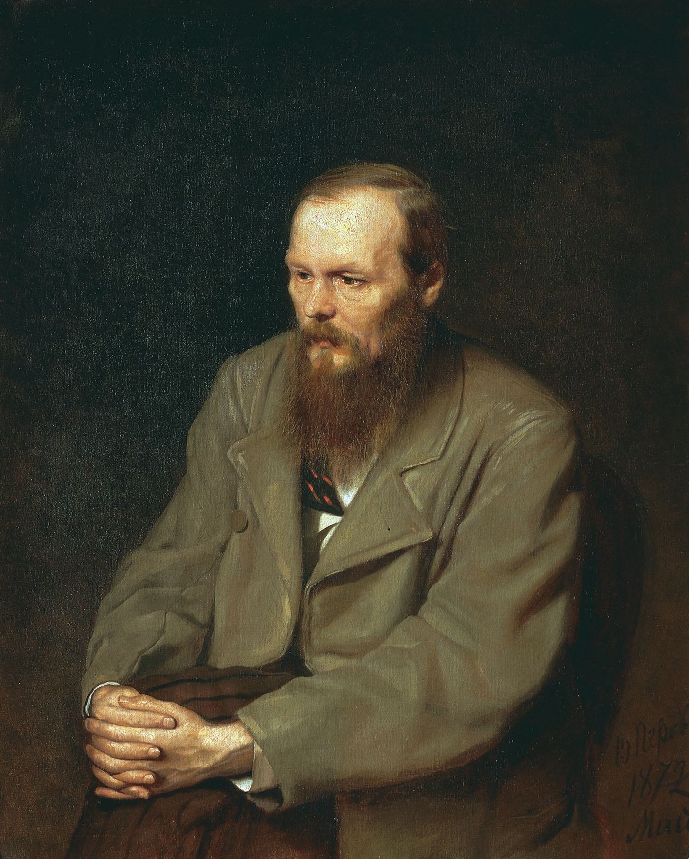 "Portrait of the Writer Fyodor Dostoyevsky", Oil on canvas. The Tretyakov Gallery, Moscow.